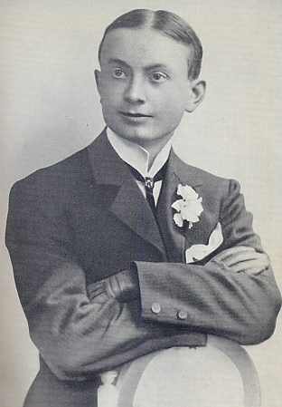 Porträt Carl Haus before his trial in the summer of 1907